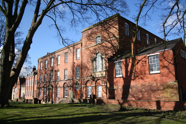 Bluecoat School. Also known as 'Christ's Hospital', the Bluecoat School was founded in 1612 with an endowment from the will of Dr.Richard Smith, for 6 poor boys and 6 poor girls to be boarded, fed, clothed and educated under the care of an usher and a matron. Further endowments allowed the school to expand to accommodate 120 scholars at one point, but it closed as a school in 1883. This building is by William Lumby in 1784, now part of the University of Lincoln faculty of Art.